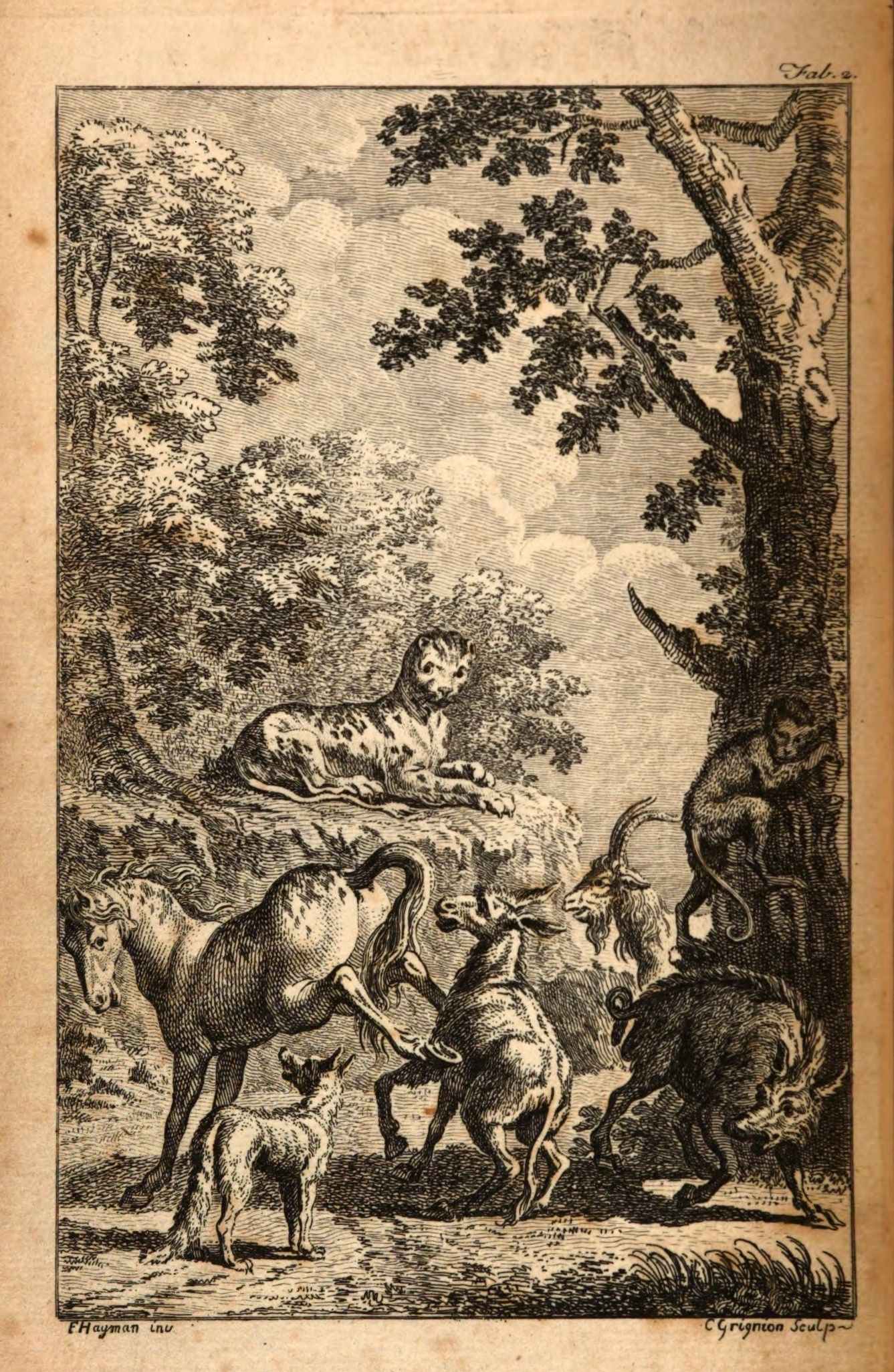 Fable II. The Panther, the Horse, and other Beasts